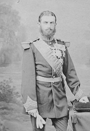 Prince Karl of Hohenzollern Sigmaringen later King Carol I of Romania